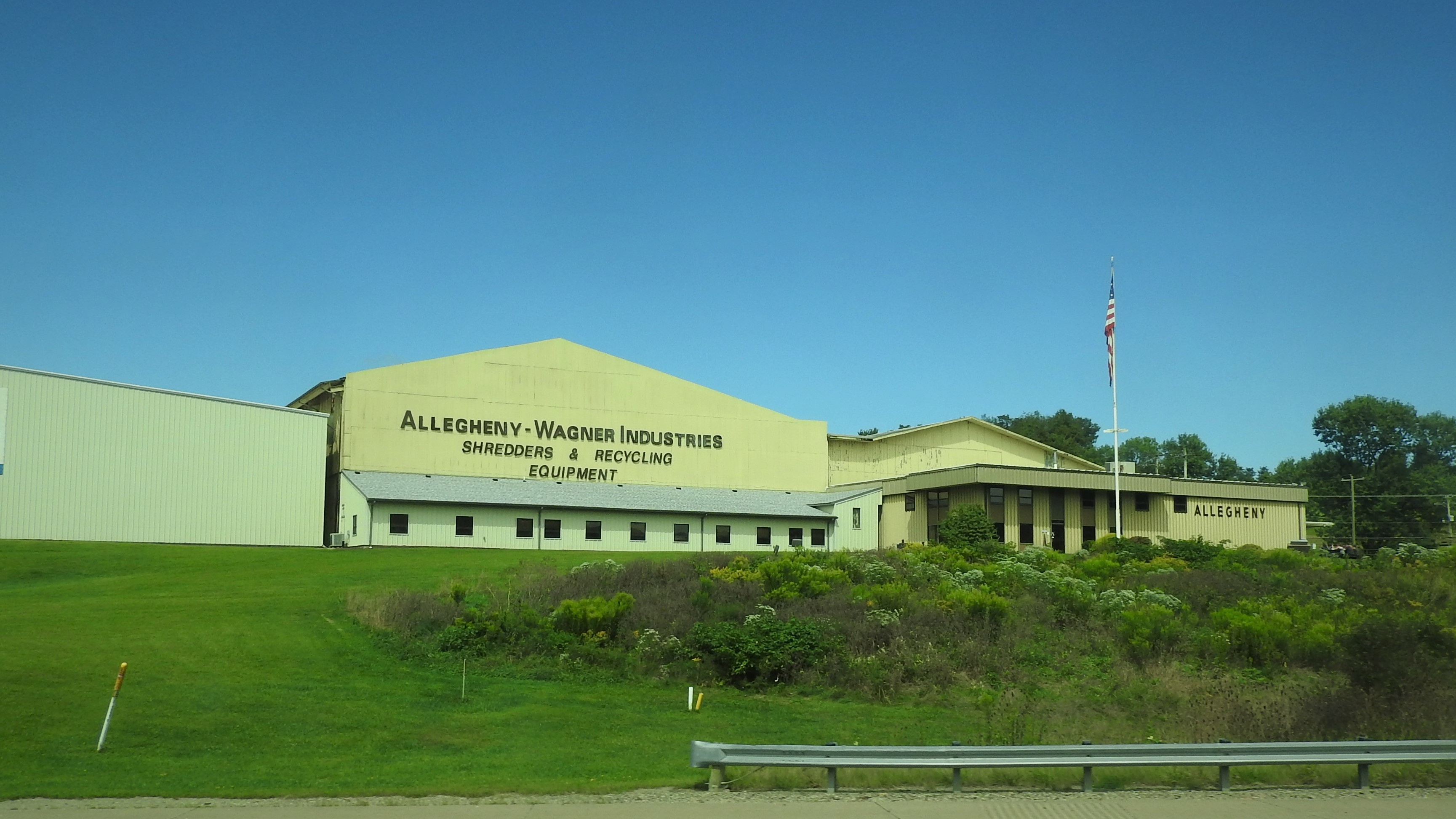 Looking northwest from a passing bus on a sunny midday